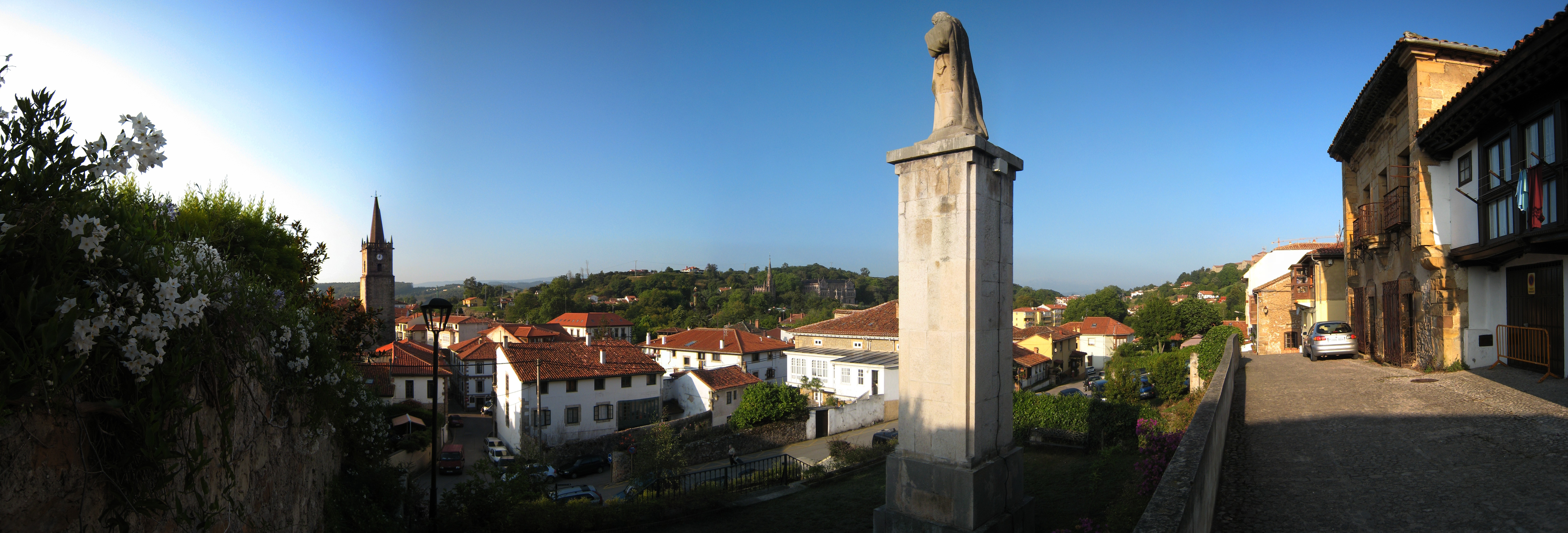 Panorama of Comillas, Cantabria, Spain.